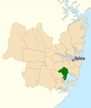 This image incorporates data that is: © Commonwealth of Australia (Australian Electoral Commission) 2009 Division of Barton 2010